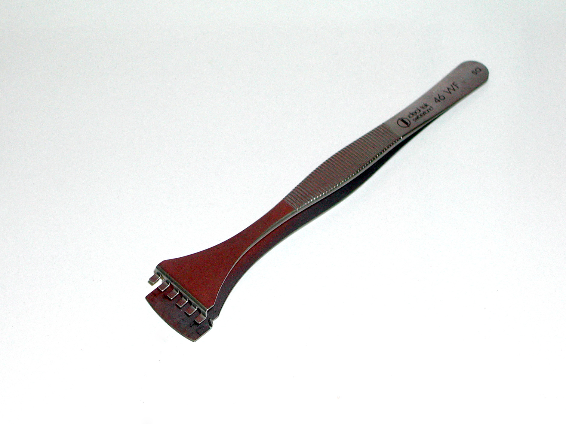 Wafer tweezer.